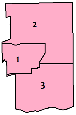 Map of Ajax, Ontario's wards used since 2018